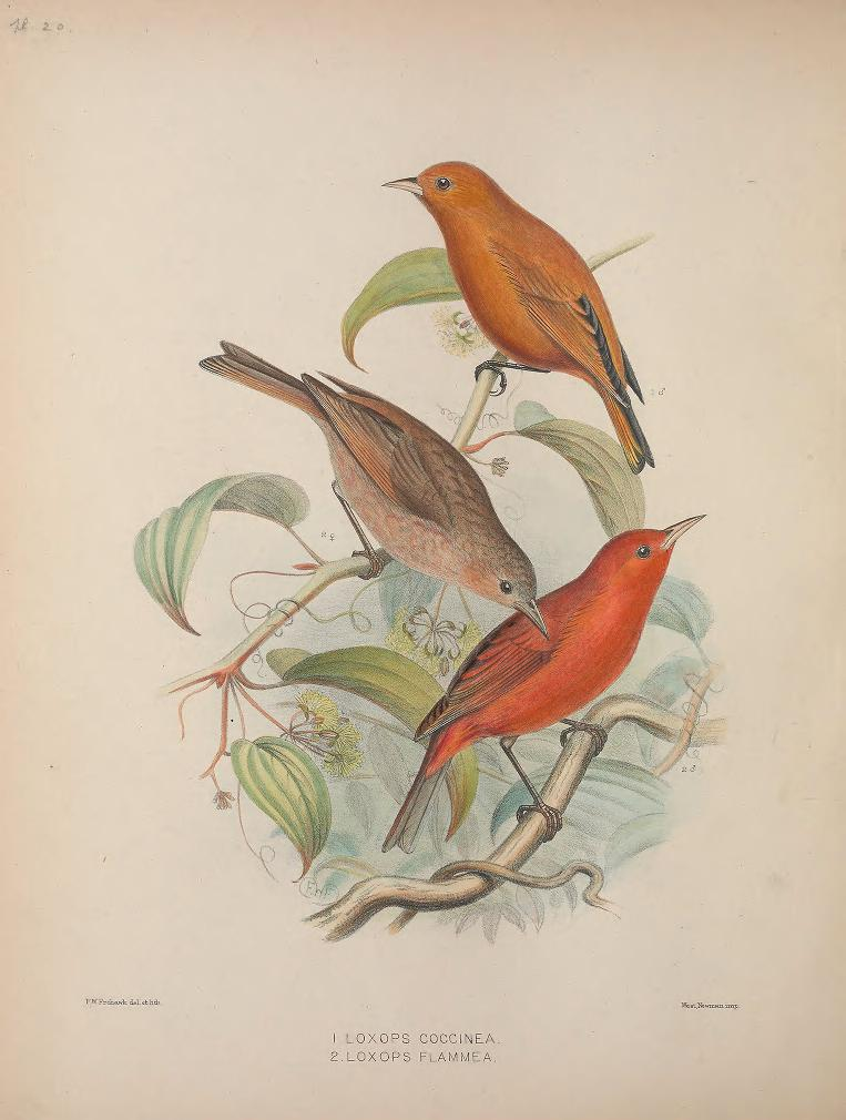 Paroreomyza flammea from The Birds of the Sandwich Islands